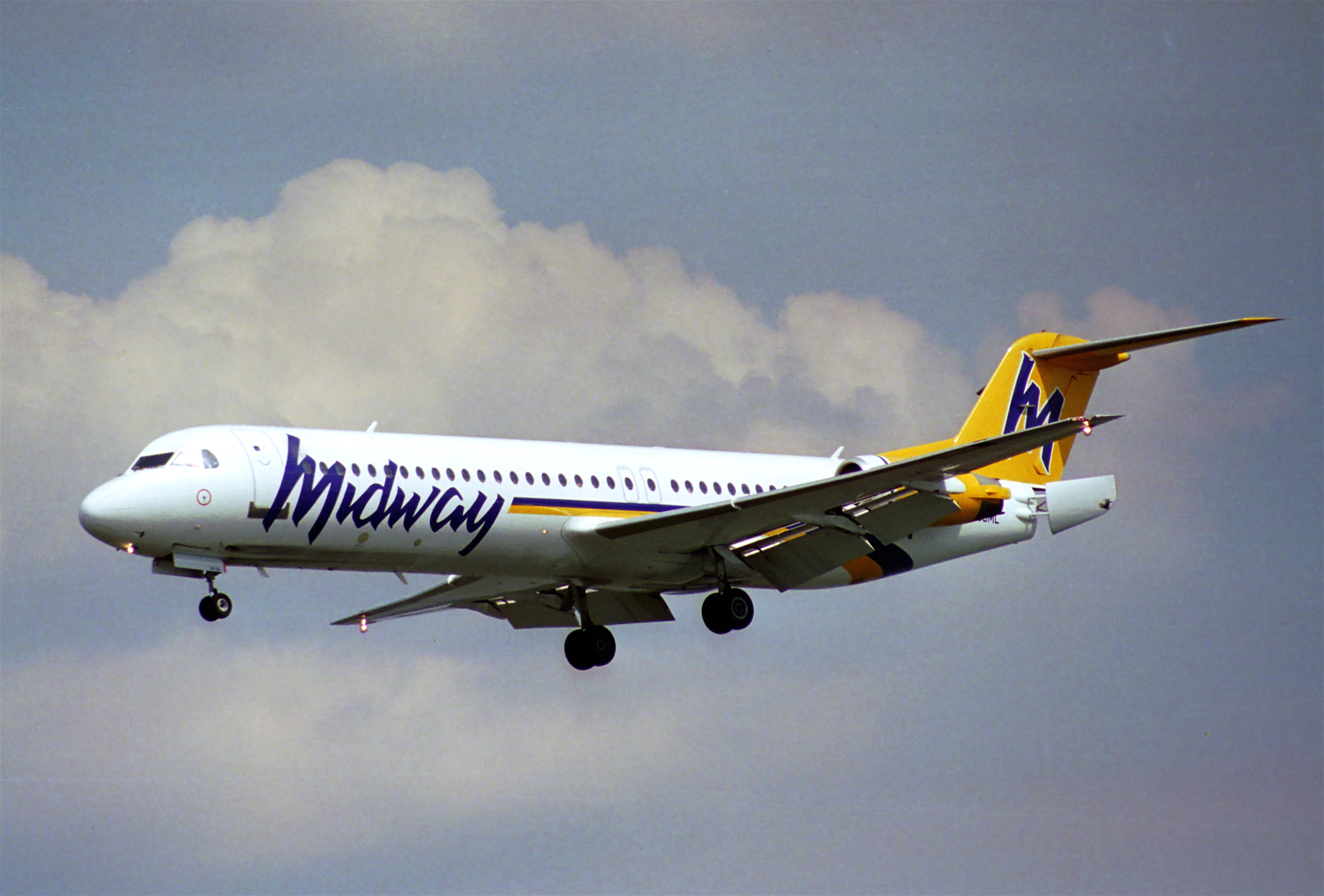 First flight: December 21, 1993... 13/01/1994 Midway Airlines N106ML 15/05/2002 Fokker PH-EUS 14/06/2002 Pelita Air Service PK-PFG stored at Dinard 06/2005 03/04/2006 KLM Cityhopper PH-OFN